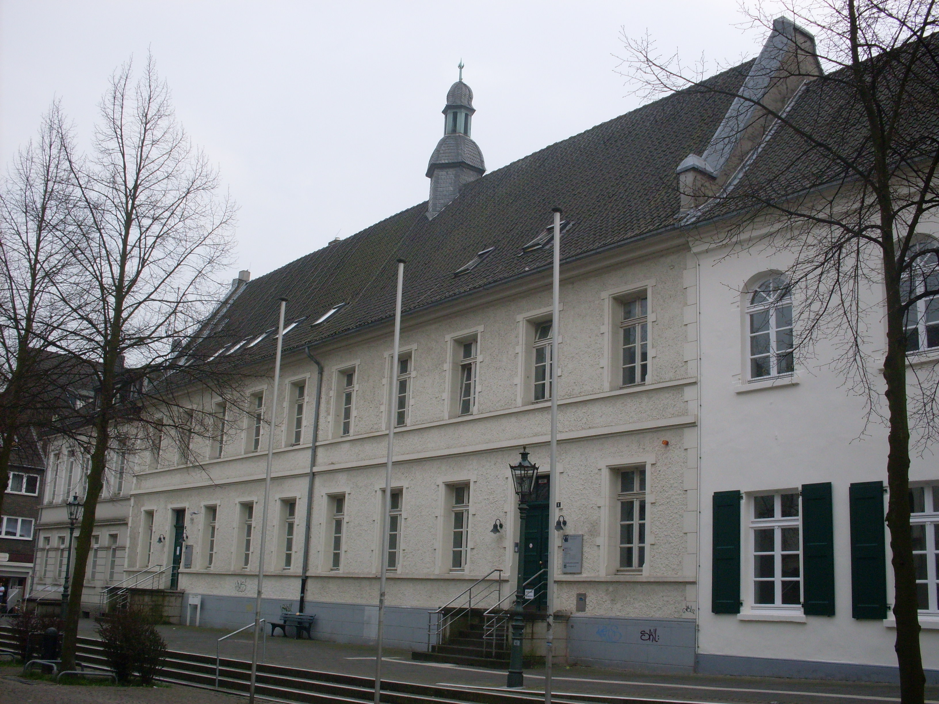 Gerresheim, Borough of Düsseldorf - Former Monastery, later City Hall and today Administration of City District 07